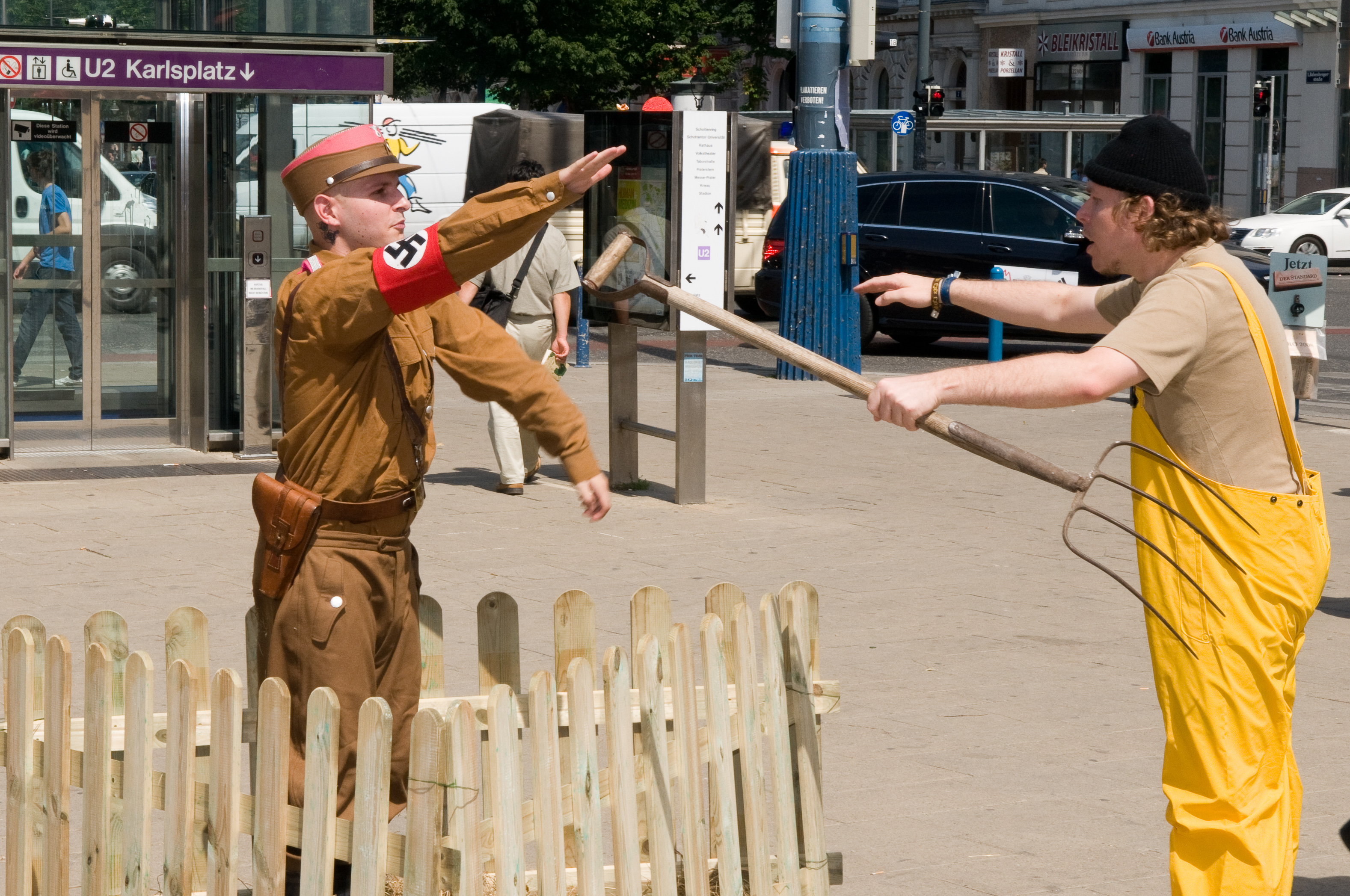 monochrom's Streichelnazi/Nazi Petting Zoo, Vienna 2008 (left: Philipp Drössler, right: Johannes Grenzfurthner)